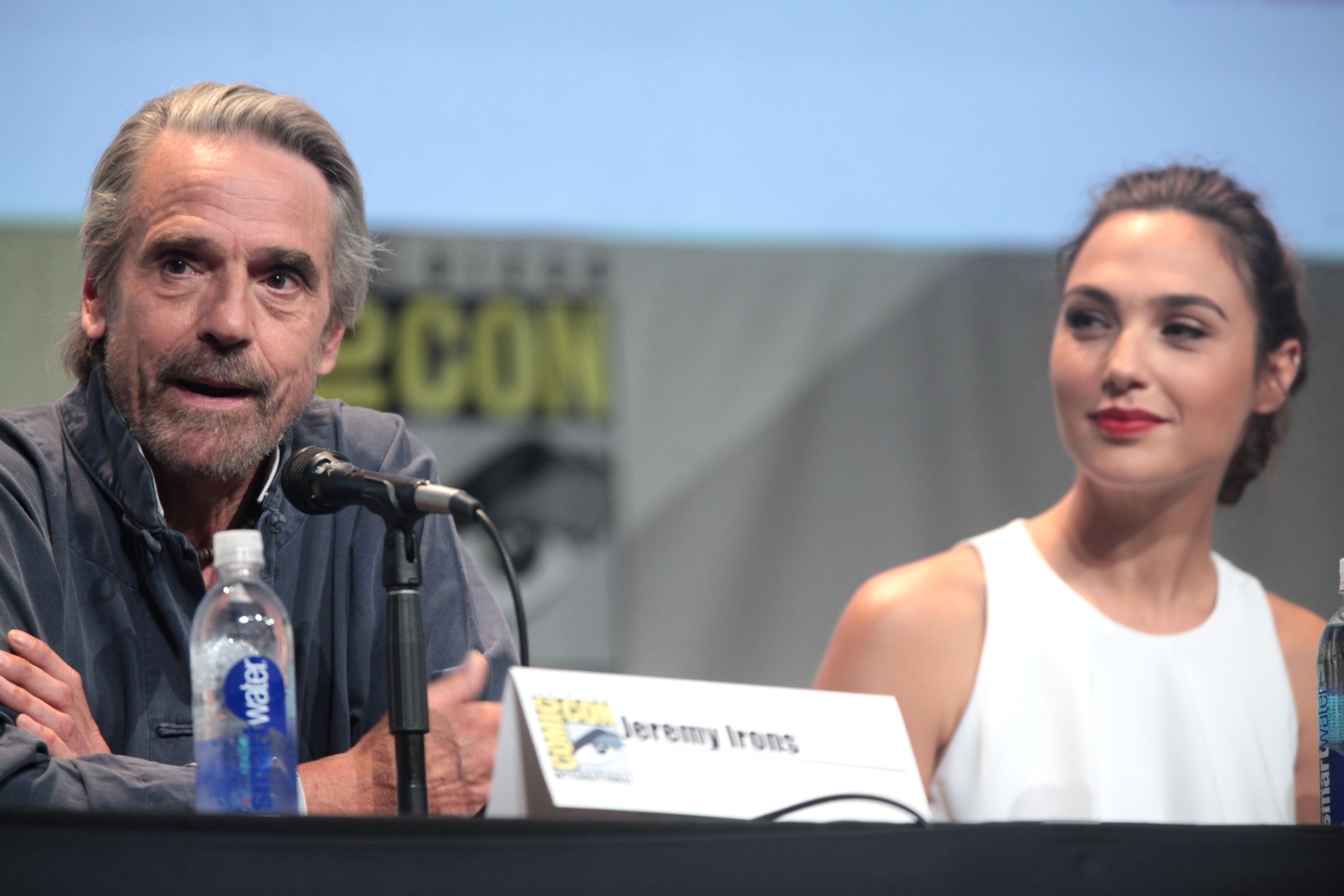 Jeremy Irons and Gal Gadot speaking at the 2015 San Diego Comic Con International, for "Batman v Superman: Dawn of Justice", at the San Diego Convention Center in San Diego, California.